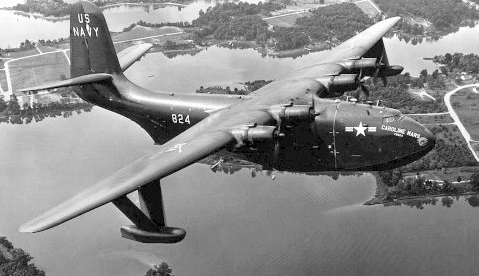 The Martin JRM-2 Caroline Mars (BuNo. 76824) of U.S. Navy transport squadron VR-2 in flight. The aircraft set two records in 1948. On 28 August 1948 it landed at Chicago, Illinois (USA), with 42 persons on board and a 6,350 kg (14,000 lb) payload, after a record nonstop flight from Honolulu (Hawaii, USA) of 7,641 km (4,748 mi) in 24 hours, 12 minutes. On 5 September 1948 it carried a cargo of 30,972 kg (68,282 lb) over 628 km (390 mi) from Patuxent River, Maryland (USA), to Cleveland, Ohio (USA), the heaviest payload ever lifted in an aircraft up to that date. In 1956 it was stored at NAS Alameda, California (USA). It was converted to civilian airtanker configuration in 1961. The aircraft was parked on its beaching gear at Victoria International Airport, Sidney, British Columbia (Canada), for maintenance with Fairey Aviation of Canada, when its tie-down lines snapped during typhoon "Frieda" on 12 Oct 1962. The beaching gear collapsed, and the aircraft was blown across the tarmac for some distance until it ran into a highway shoulder. It was considered damaged beyond repair and was broken up for spares.